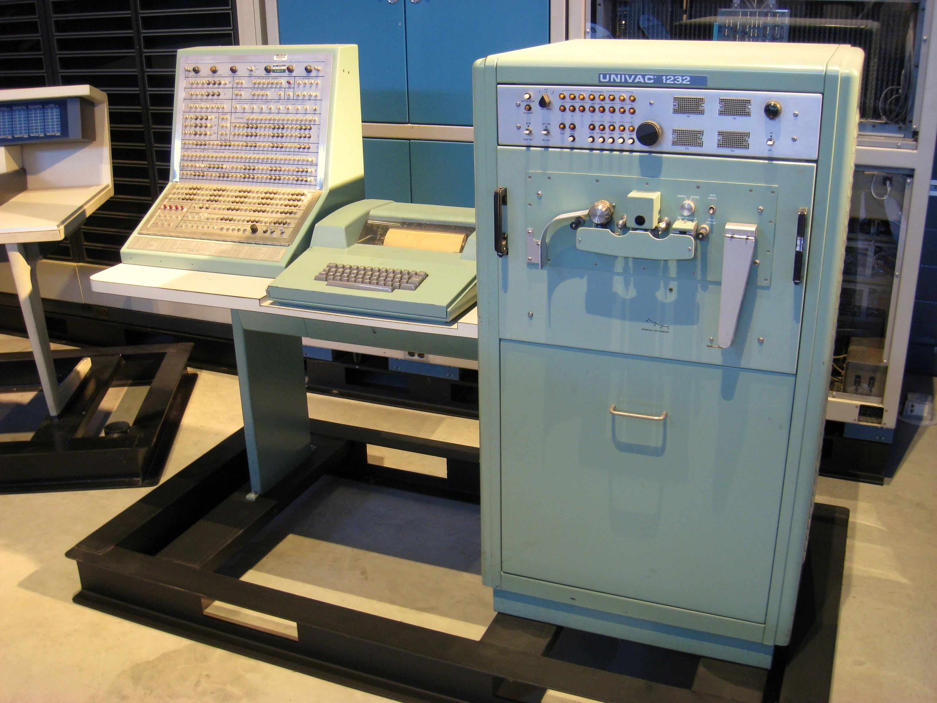 Univac 1232 - Udvar-Hazy Center, Dulles International Airport, Chantilly, Virginia, USA.